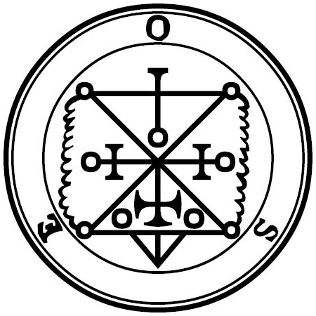 Ose seal, THE BOOK OF THE GOETIA OF SOLOMON THE KING (1904)